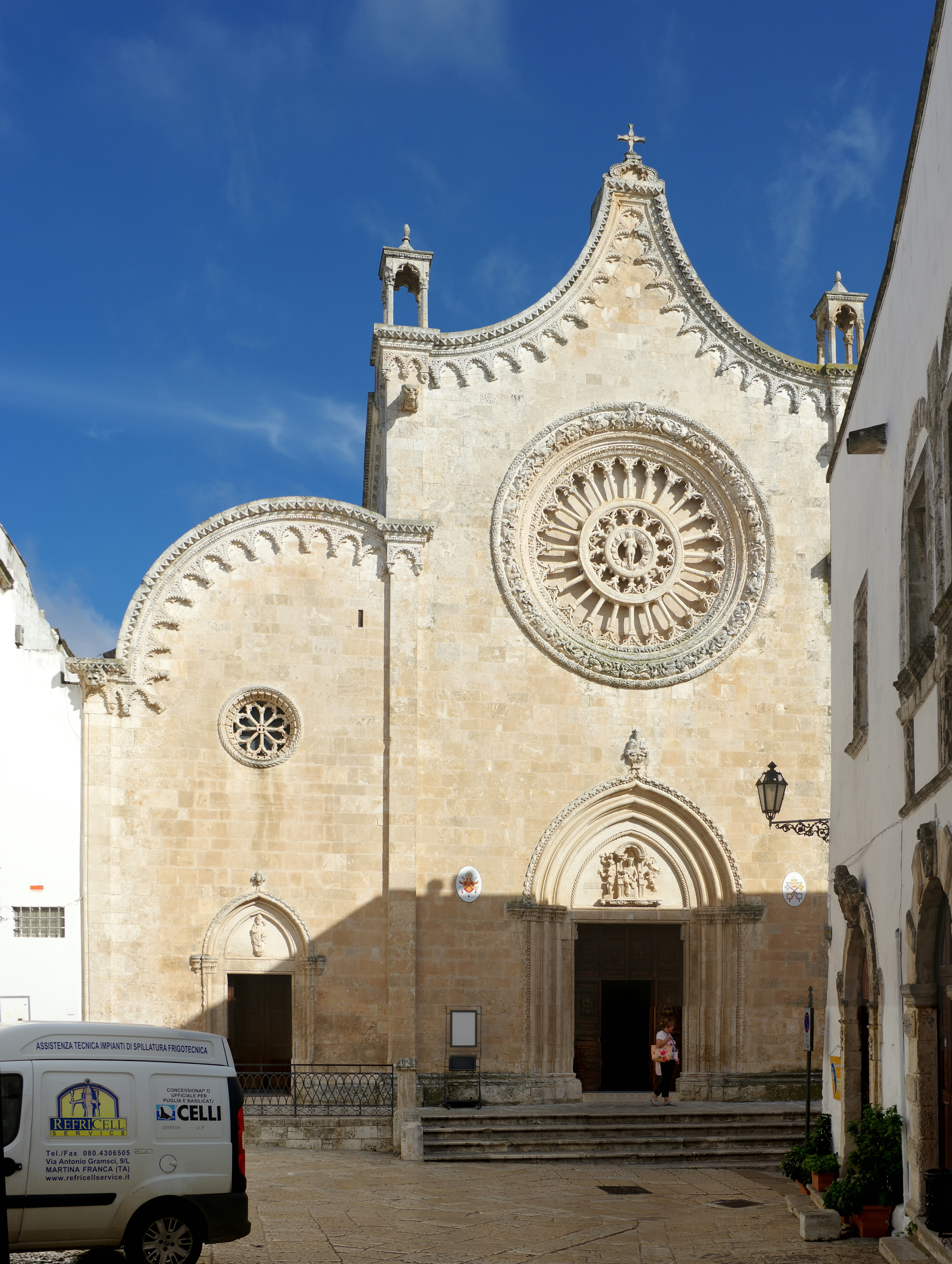 Italy, Ostuni, cathedral